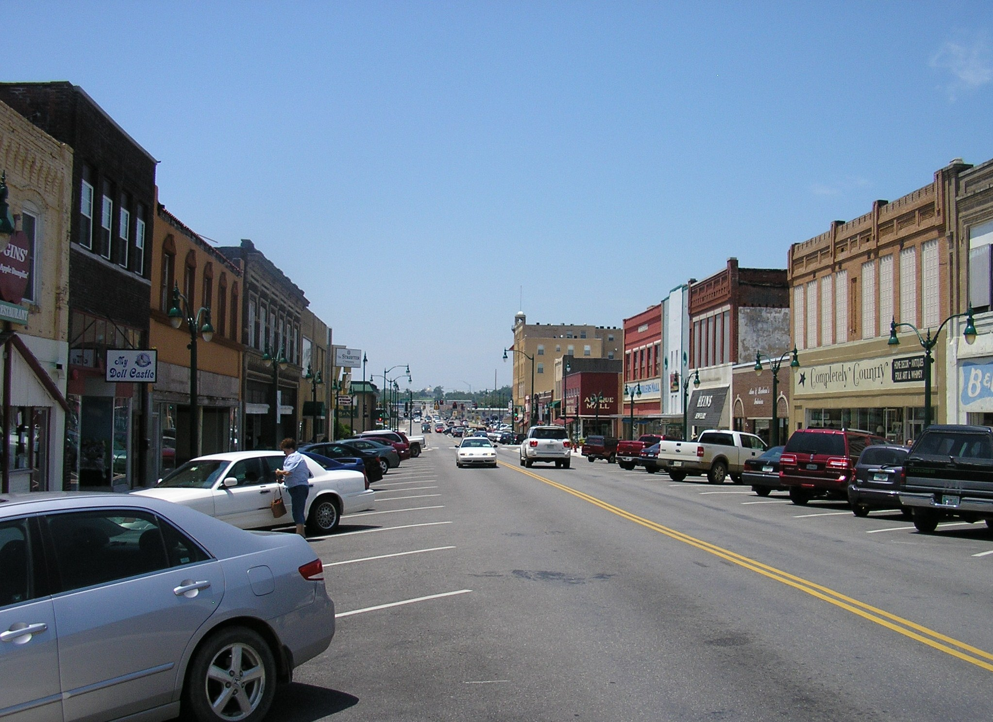 Downtown Claremore